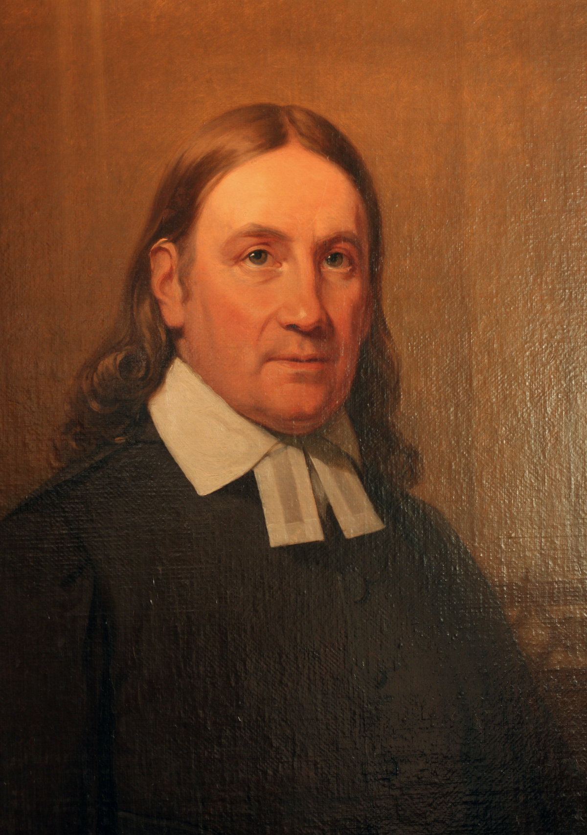 A picture of Sven Fredrik Lidman.